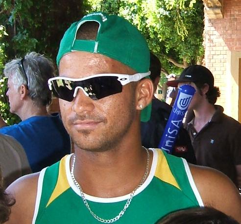 JP Duminy at a training session at the Adelaide Oval